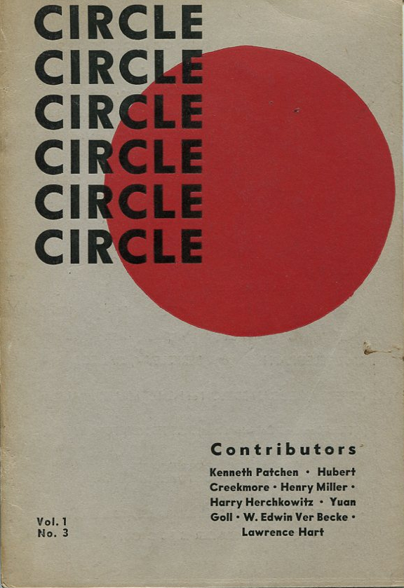 Cover of 3rd issue of Circle Magazine, 1944